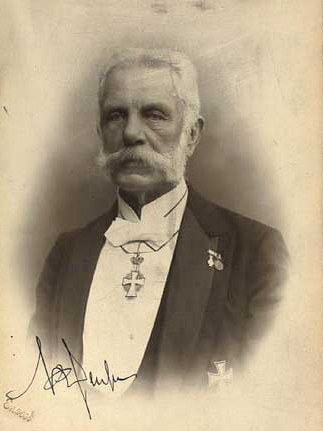 Niels Peder Jensen (N.P. Jensen) (1830-1918), Danish army officer and politician, MP